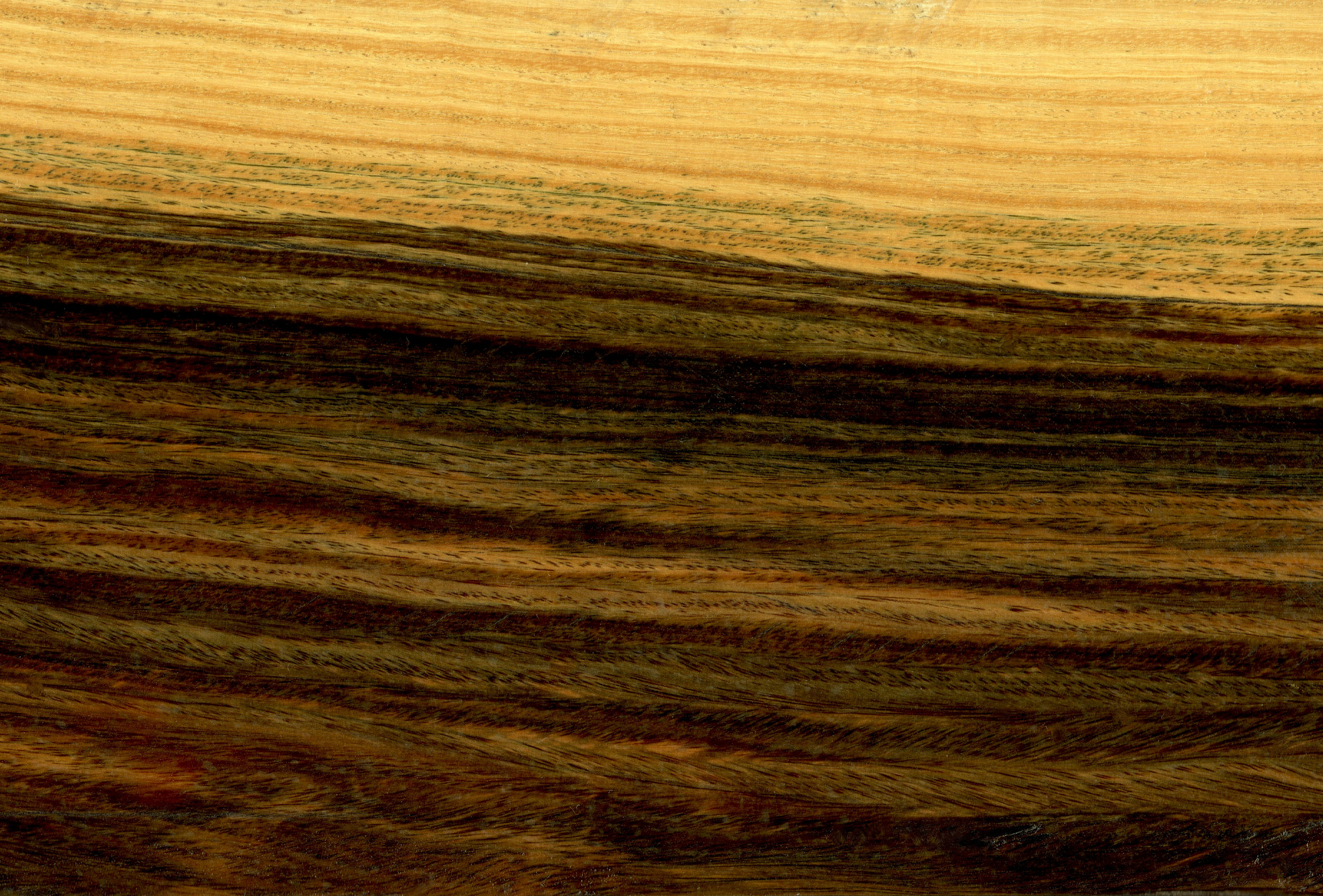 Wood of Argentine lignum vitae (Bulnesia Sarmientoi)